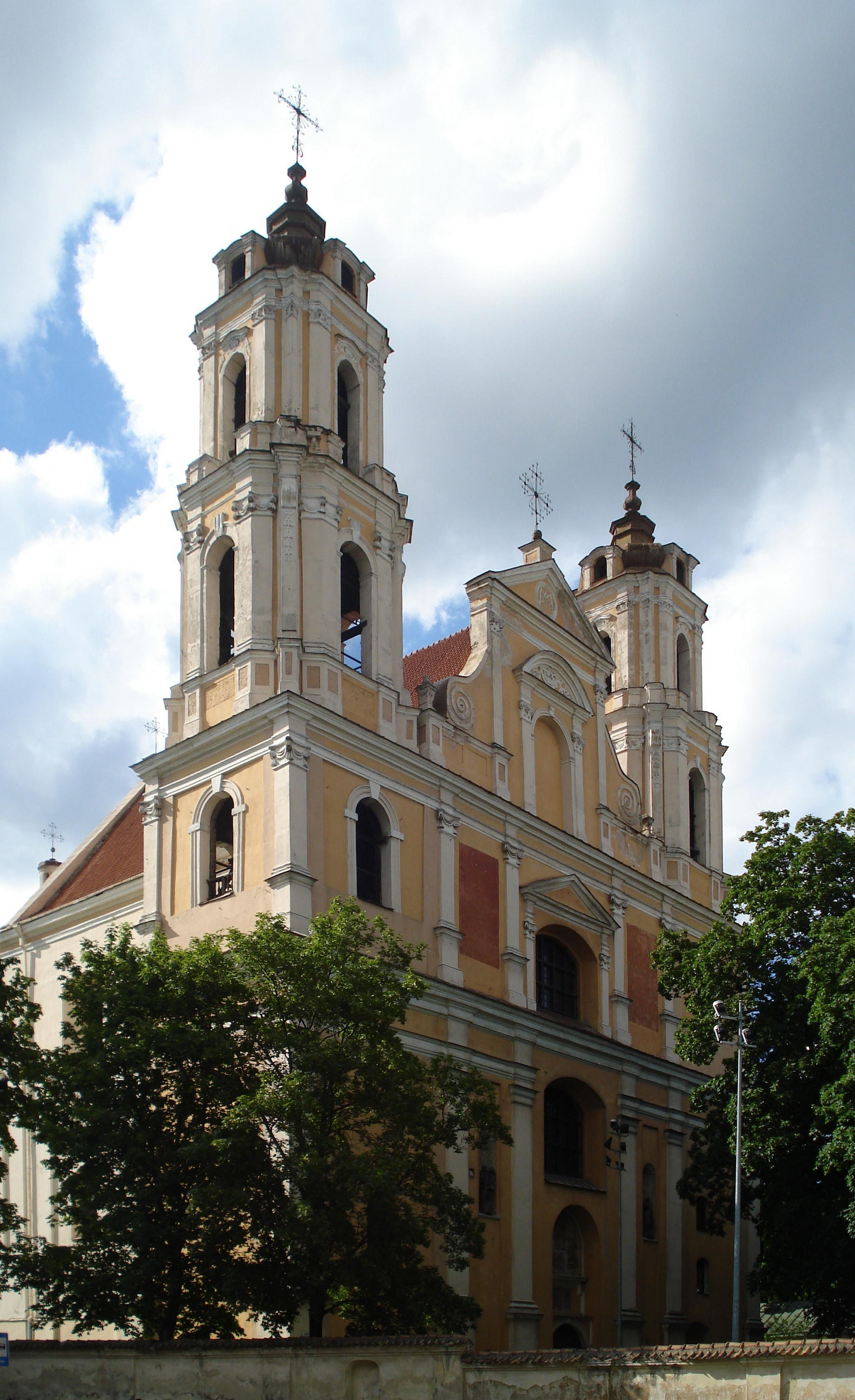 The Church of St. Jacob and St. Philip in Vilnius